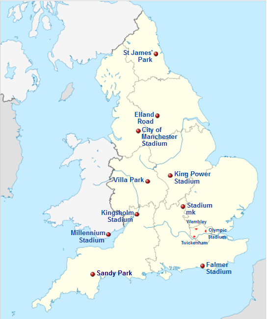 Location map of England Equirectangular projection, N/S stretching 170 %. Geographic limits of the map: * N: 56.0° N * S: 49.75° N * W: 6.75° W * E: 2.0° E